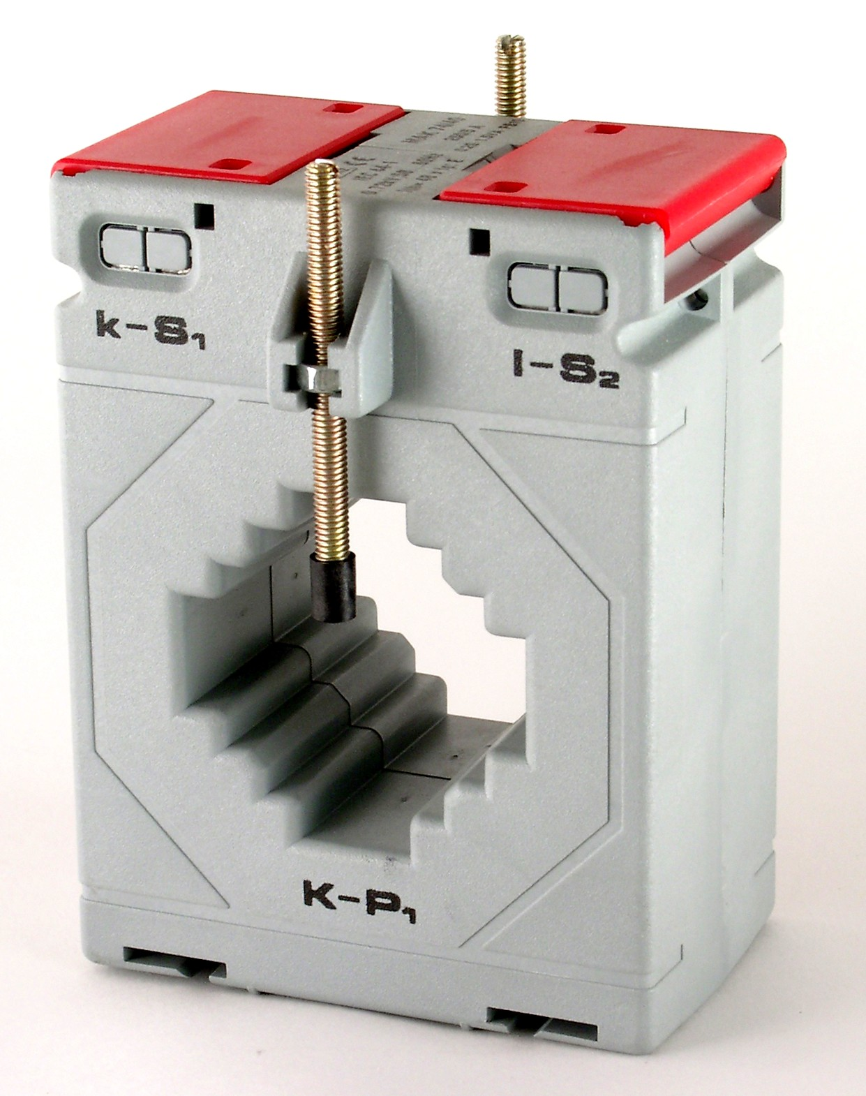 Current transformer